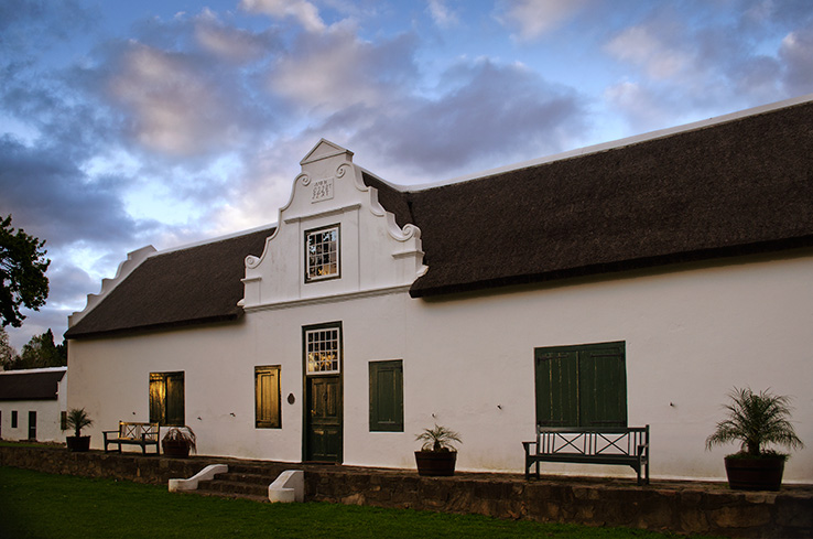 This media shows a South African Protected Site with SAHRA file reference 9/2/069/0077.